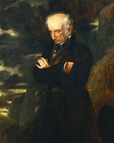 William Wordsworth by Benjamin Robert Haydon oil on canvas, 1842 49 in. x 39 in. (1245 mm x 991 mm) Bequeathed by John Fisher Wordsworth, 1920 NPG 1857